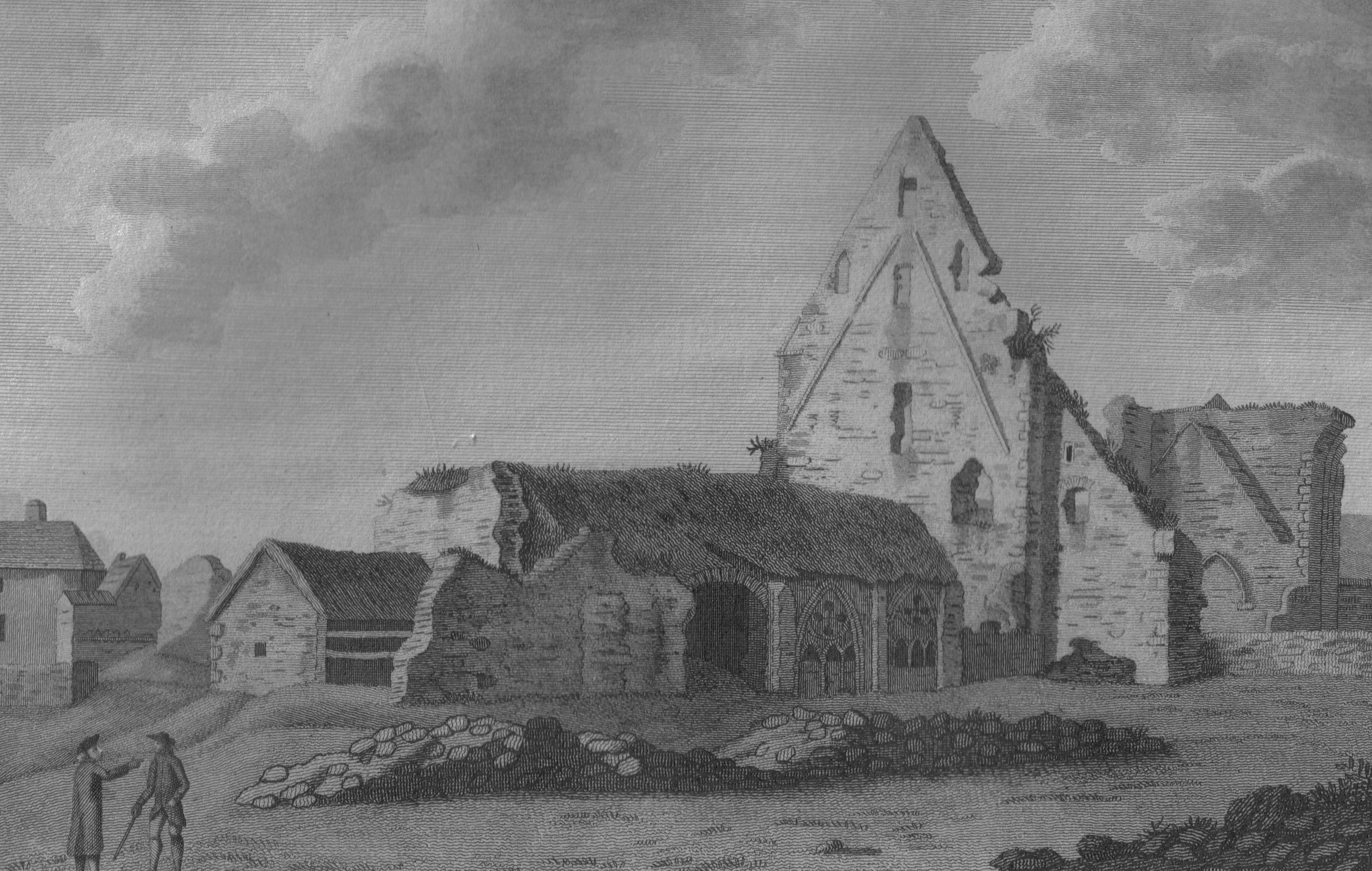 Glenluce Abbey, The Machars, Galloway, Scotland